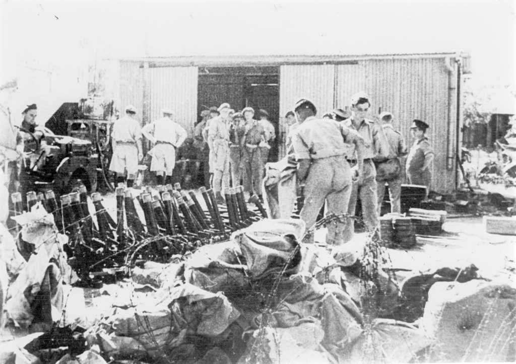 The Palmach, Israel Defense Forces